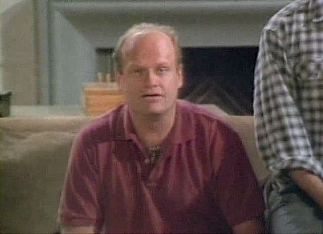 Screen capture of Kelsey Grammer from a US Government (public domain) video in character on the set of Frazier